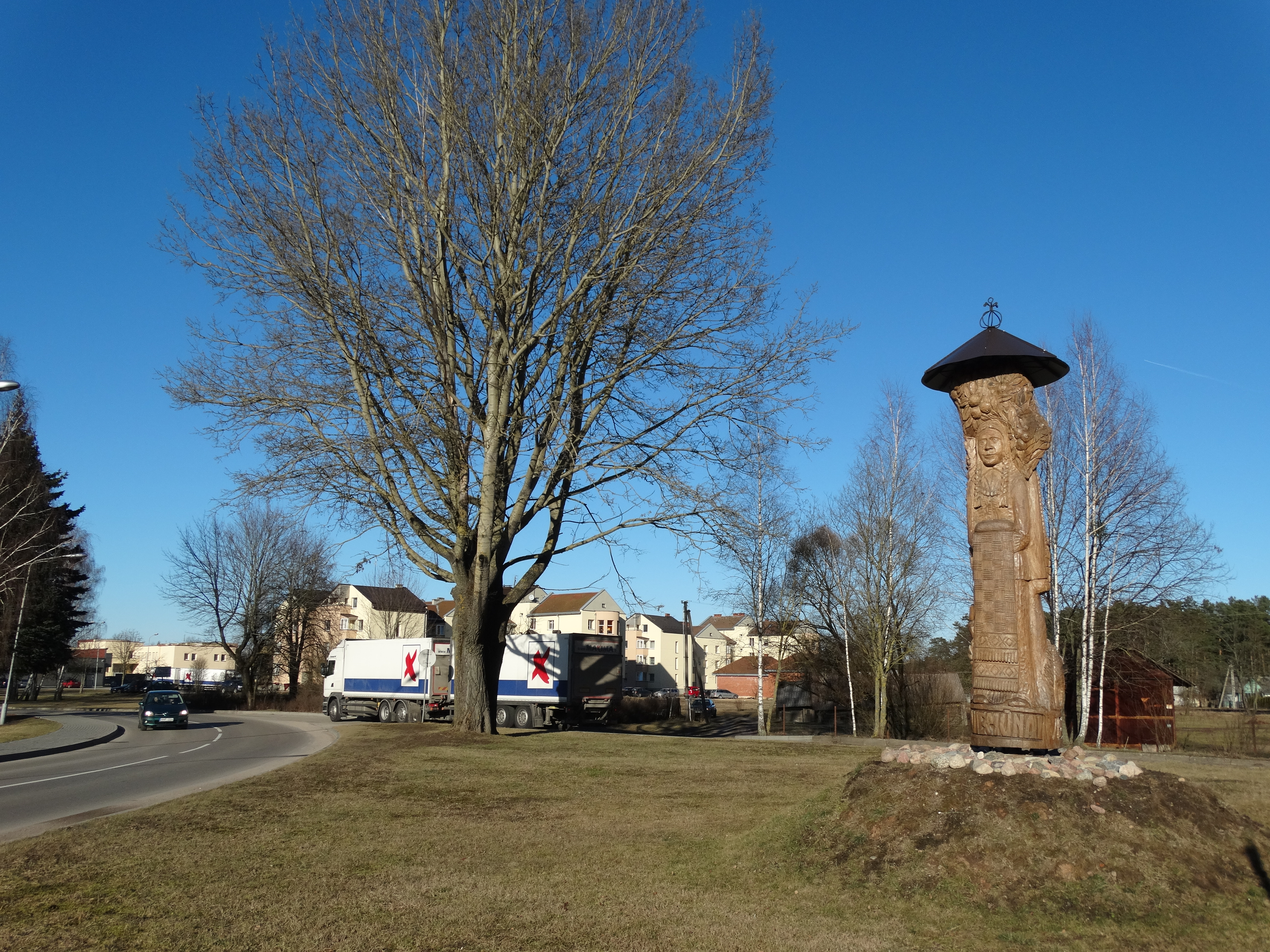 Viečiūnai, Druskininkai Municipality, Lithuania